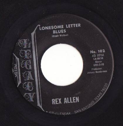 Lonesome Letter Blues by Rex Allen, Legacy [year unknown].